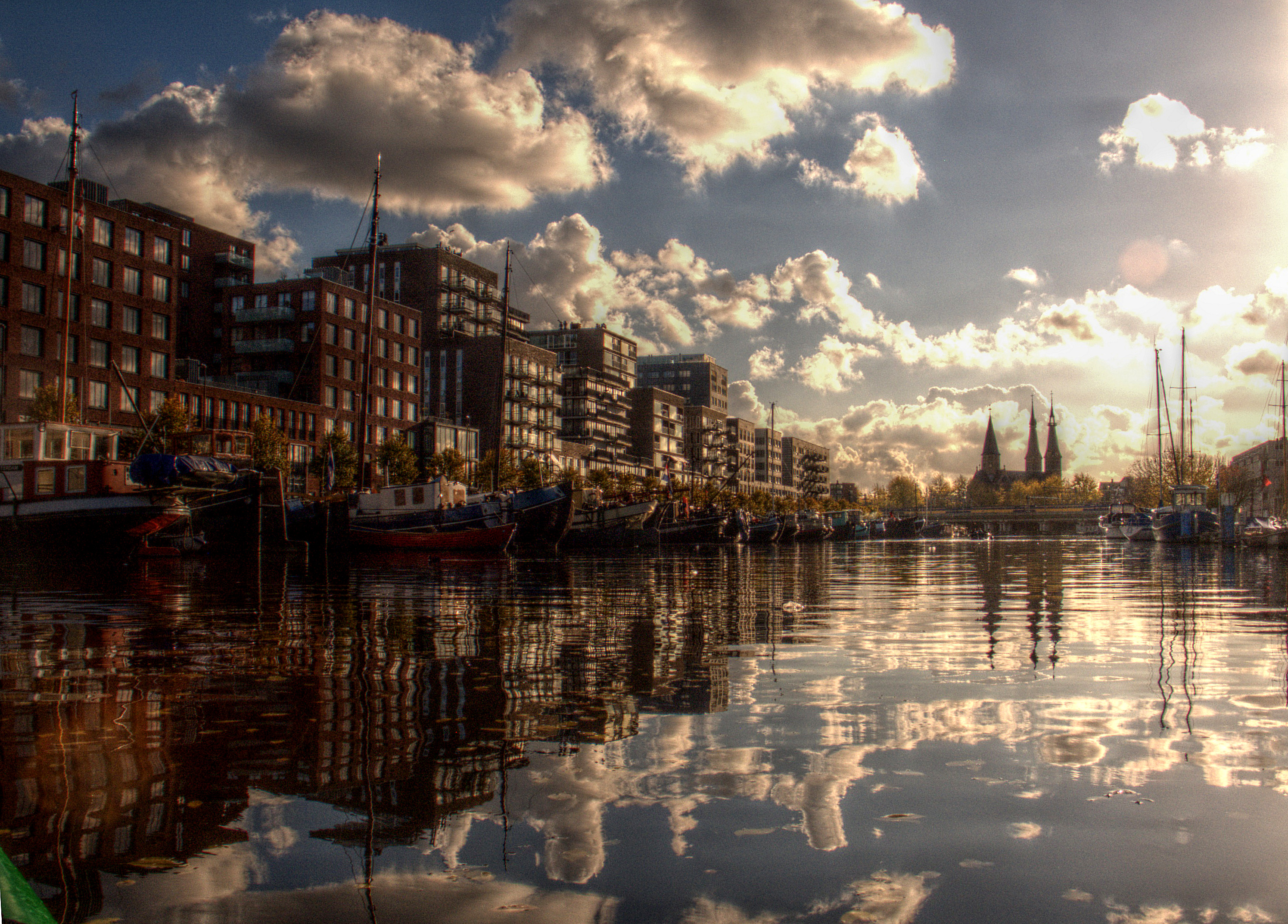 The Westerdok in Amsterdam, with the buldings on the Westerdokseiland to the left, seen towards the south with the Posthoornkerk visible in the distance. November 2012